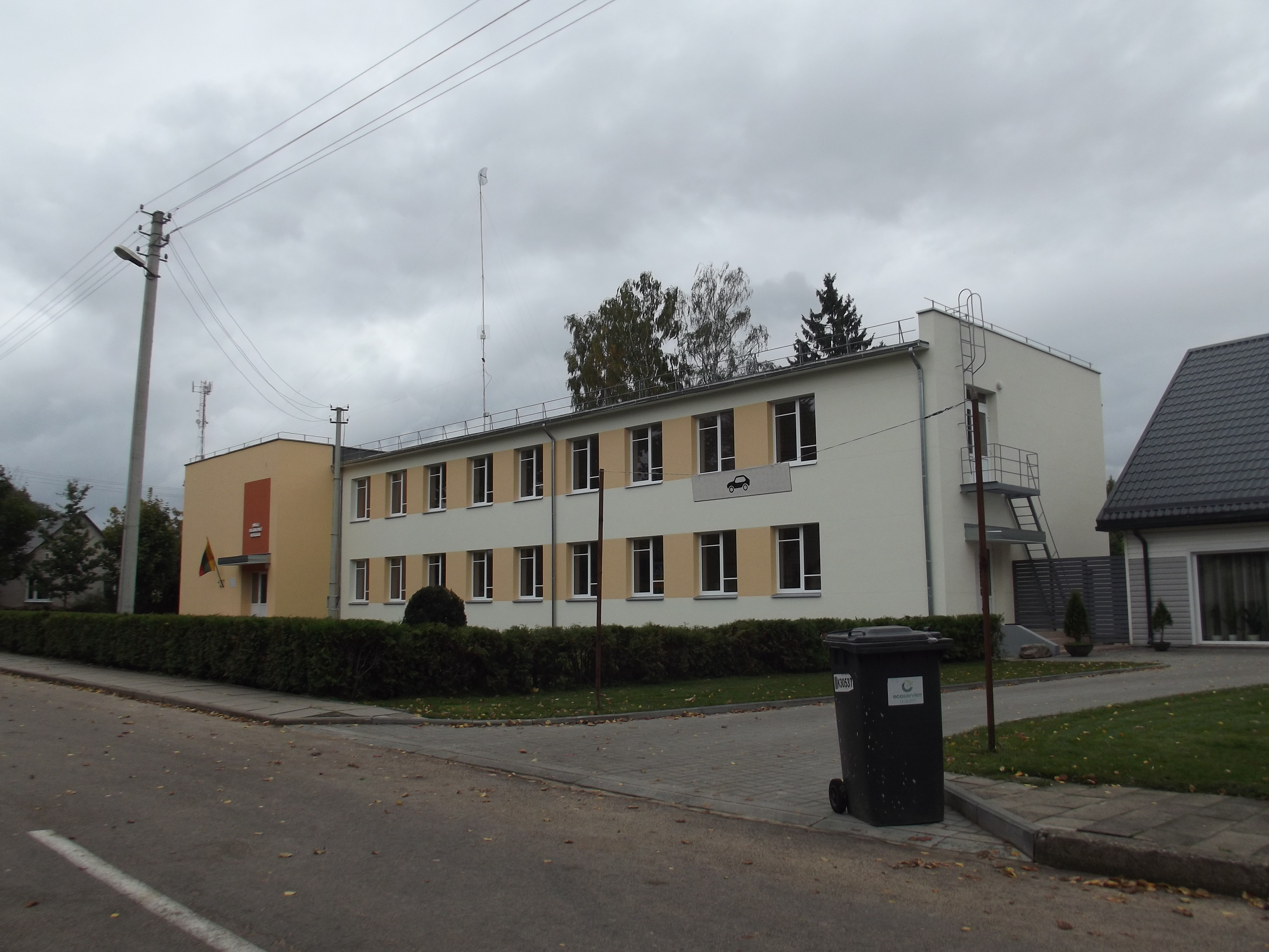 Basic school in Jankai, Kazlų Rūda municipality, Lithuania